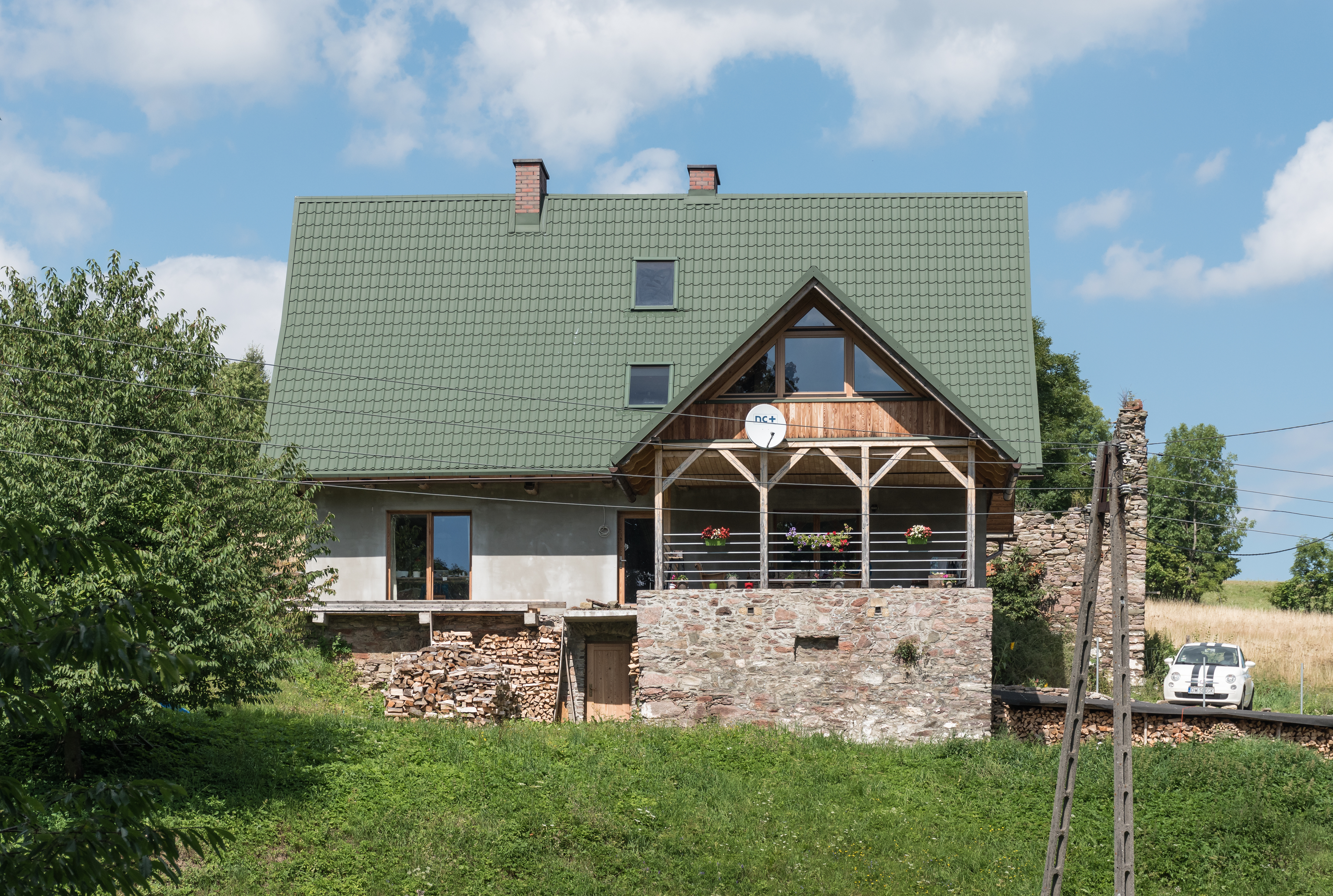 House No. 20 in Gniewoszów